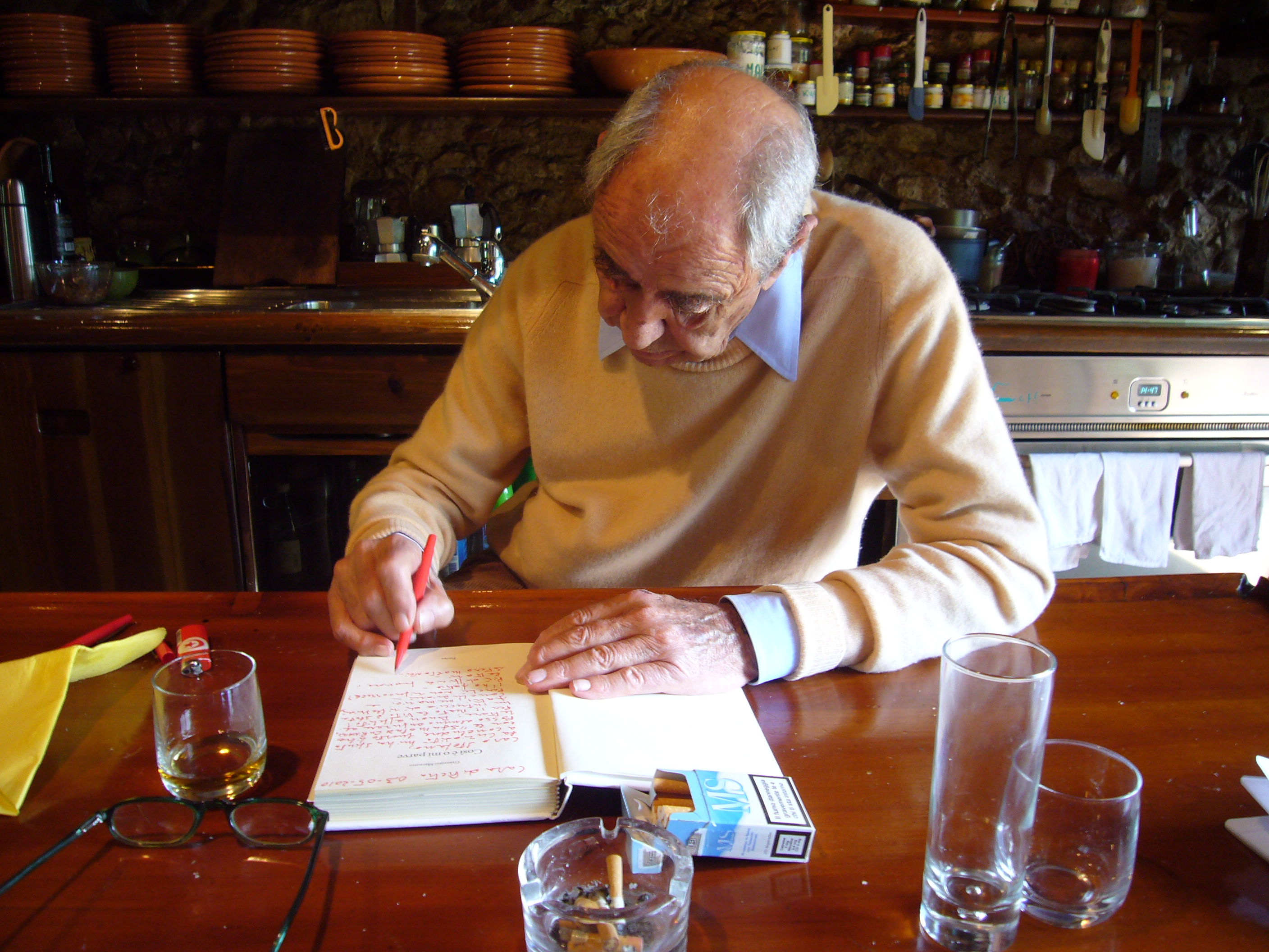 winner of Mille Miglia 1950 & 1953